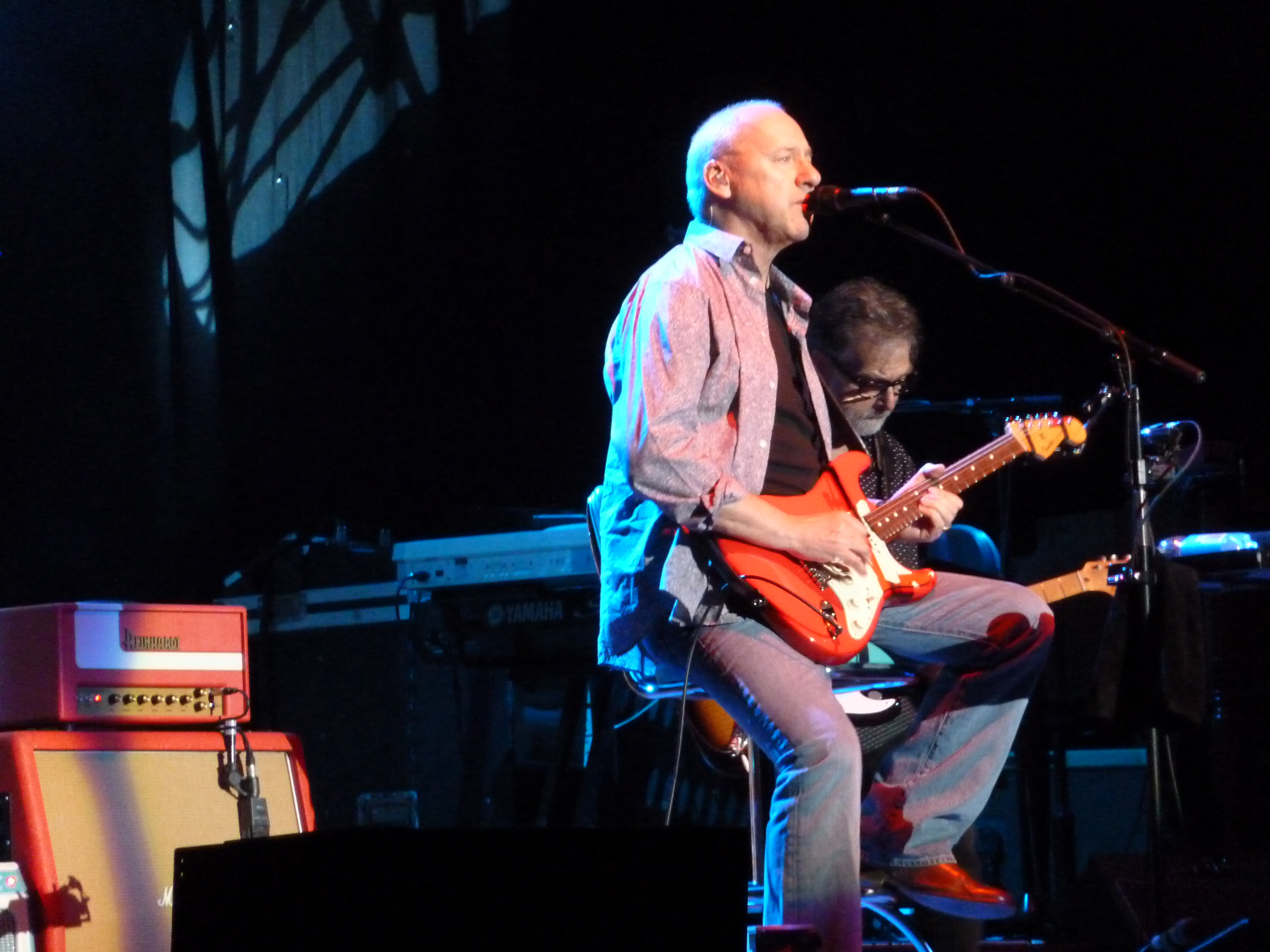 Concert of Mark Knopfler at O2 World Berlin.